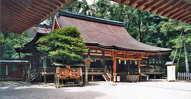 Isonokami Shrine jinja Tenri Nara Prefecture Japan I took this photo.